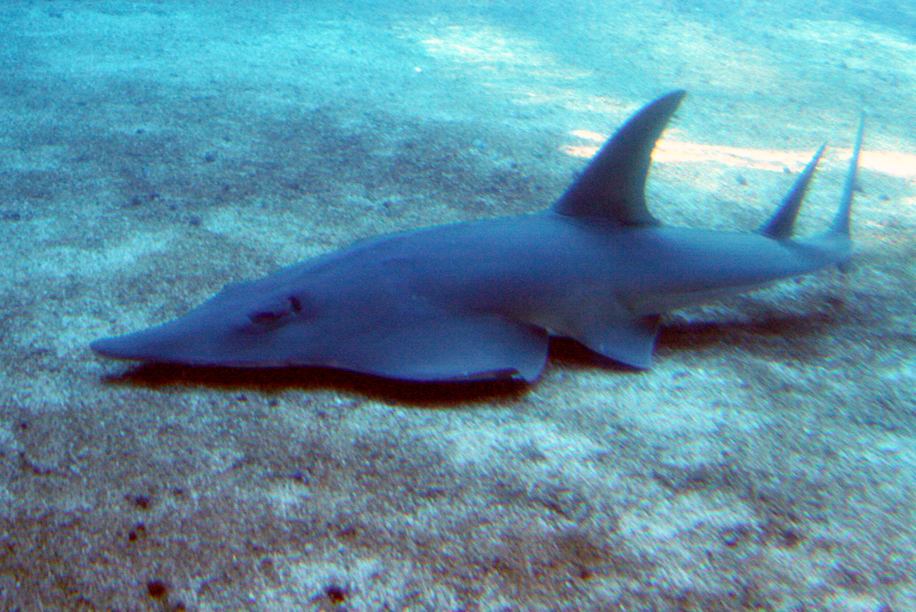 Giant guitarfish (Rhynchobatus djiddensis) at Durban, South Africa.